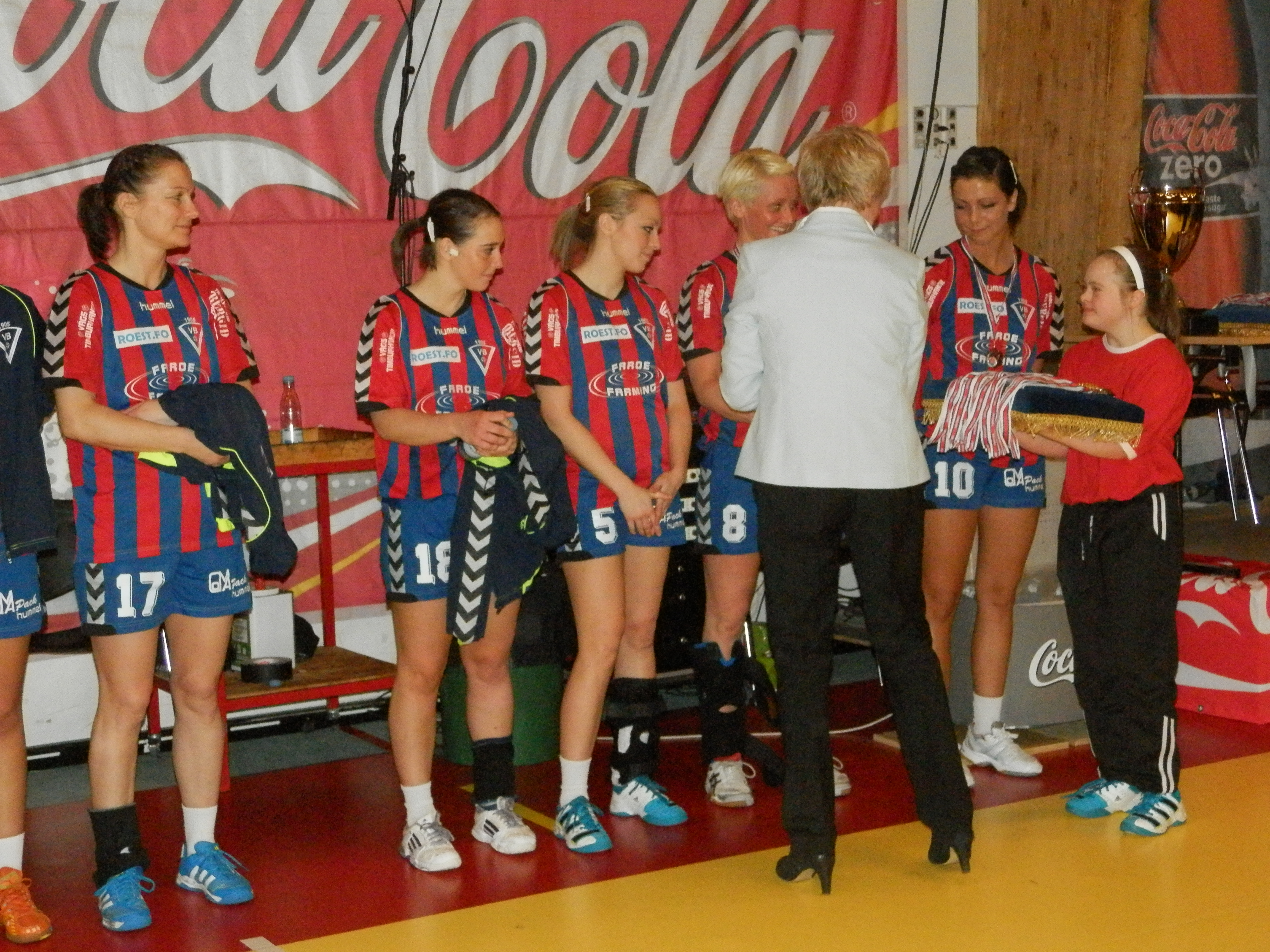 The women's handball final in the Faroe Islands Cup 2013 was played on 9 February 2013 in the sports hall on Nabb in Tórshavn, Faroe Islands. The final was between VB from Vágur and Neistin from Tórshavn. Neistin won the final 27-24. On this photo Helena Dam á Neystabø is handing the silver medals to VB. Føroyskt: Steypafinalan 2013 hjá kvinnum í hondbólti millum VB og Neistan varð leikt í Høllini á Nabb (á Hálsi) í Havn hin 9. februar 2013. Neistin vann finaluna 27-24. Her fáa VB kvinnurnar handað silvur heiðursmerkini. Tað var Helena Dam á Neystabø, forkvinna í Mentanarnevnd Tórshavnar Býráðs, ið handaði heiðursmerkini.